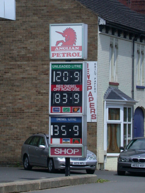 Station Road Garage - prices Unleaded 120.9 Red diesel 83.9 Diesel 135.9